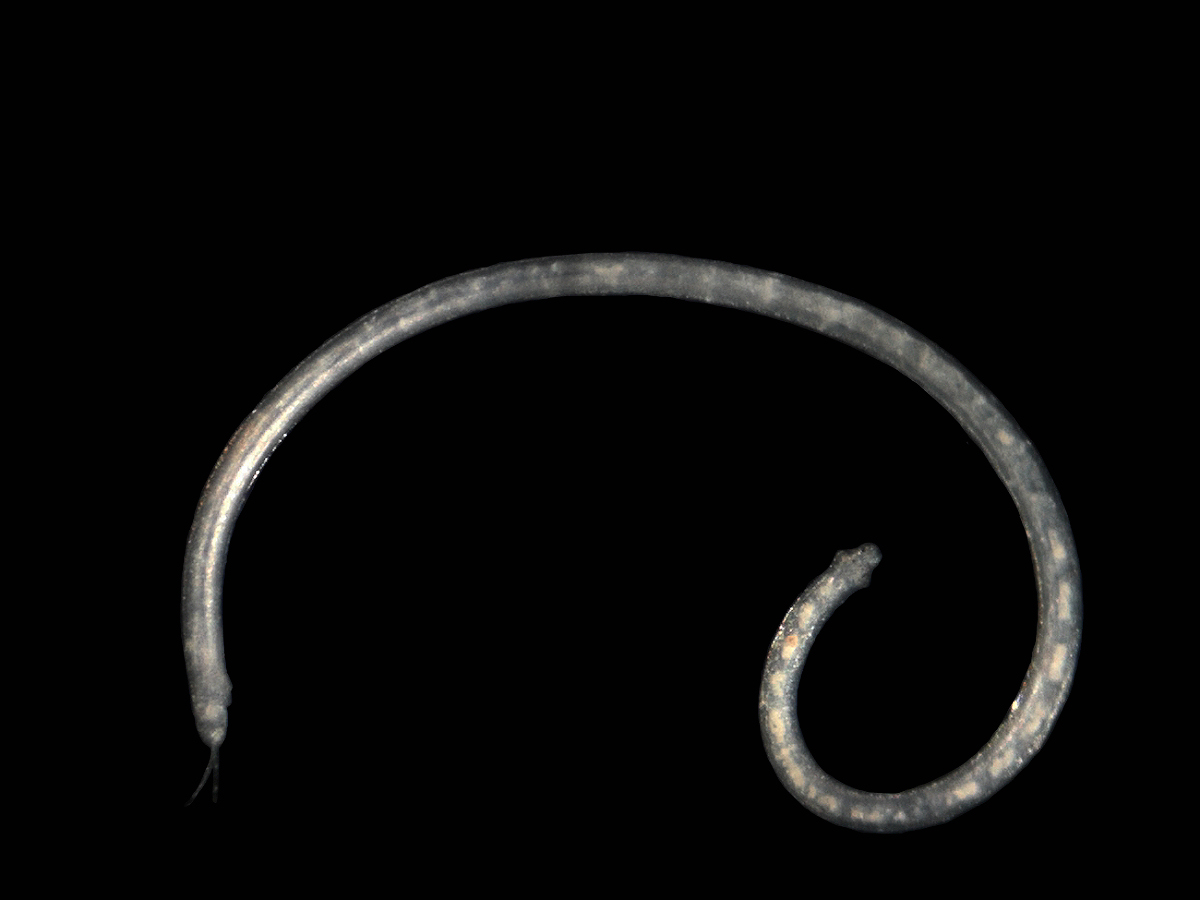 Tiny interstitial polychaete from the Belgian continental shelf.Length: ~3mm. Geo-location not applicable as the picture was taken in the lab.